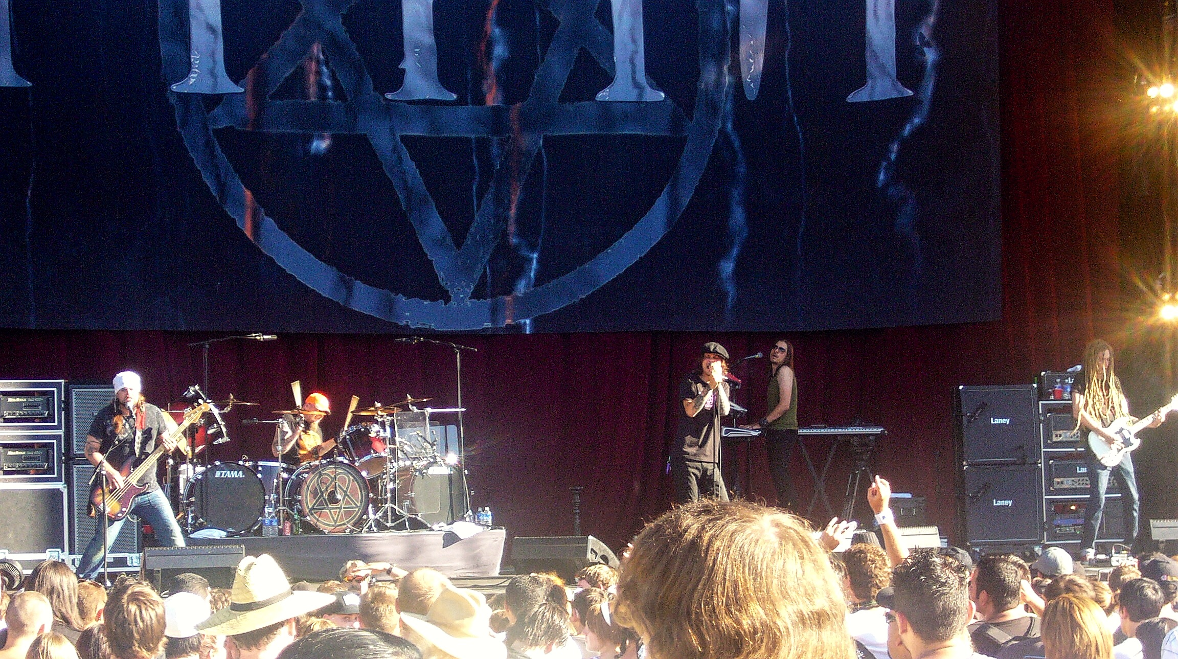 Author: Omar Otiniano Nationality: Peruvian Photo taken At: Marysville, CA